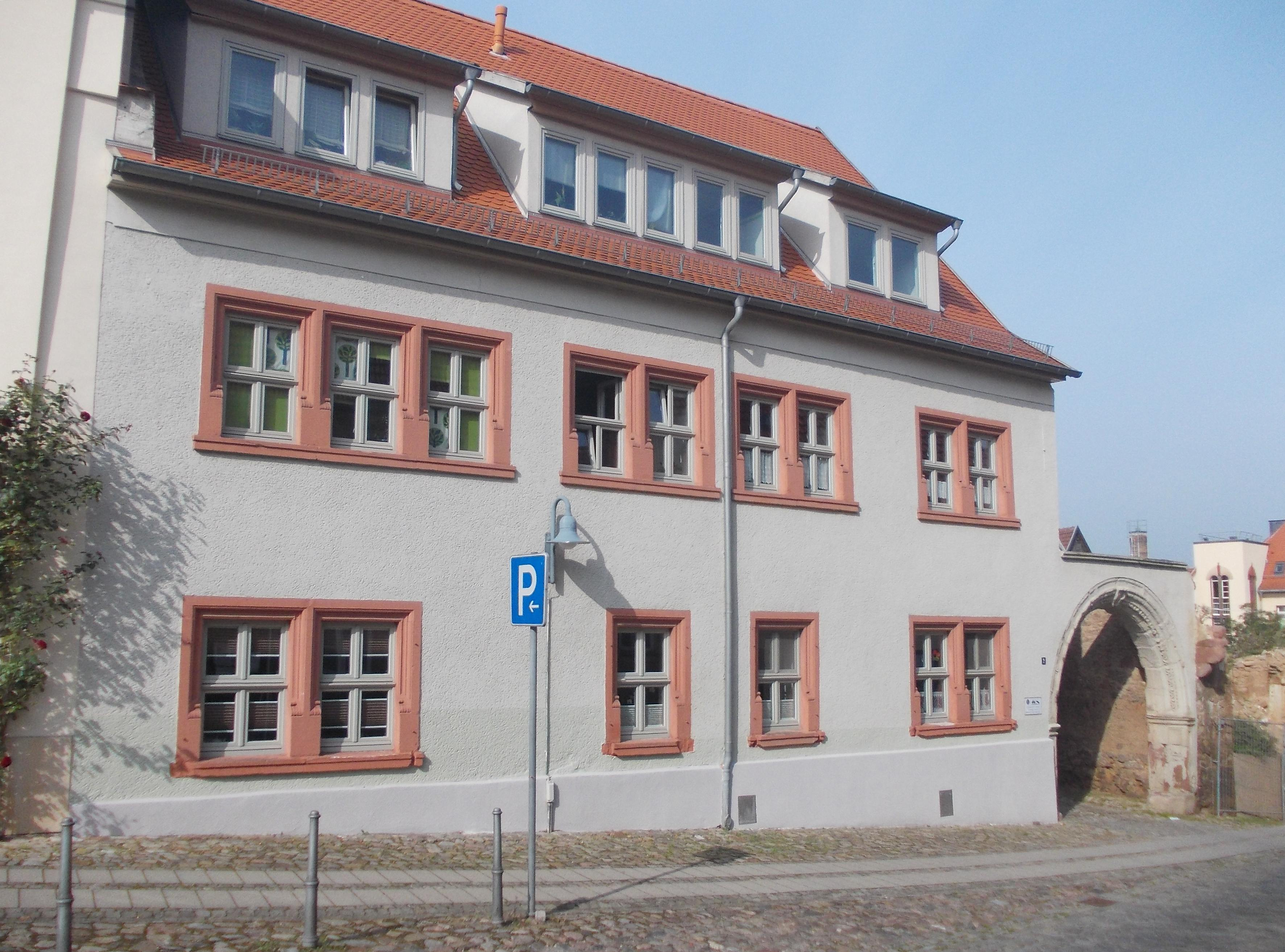 No. 2, An der Trillerei in Sangerhausen (Mansfeld-Südharz district, Saxony-Anhalt)